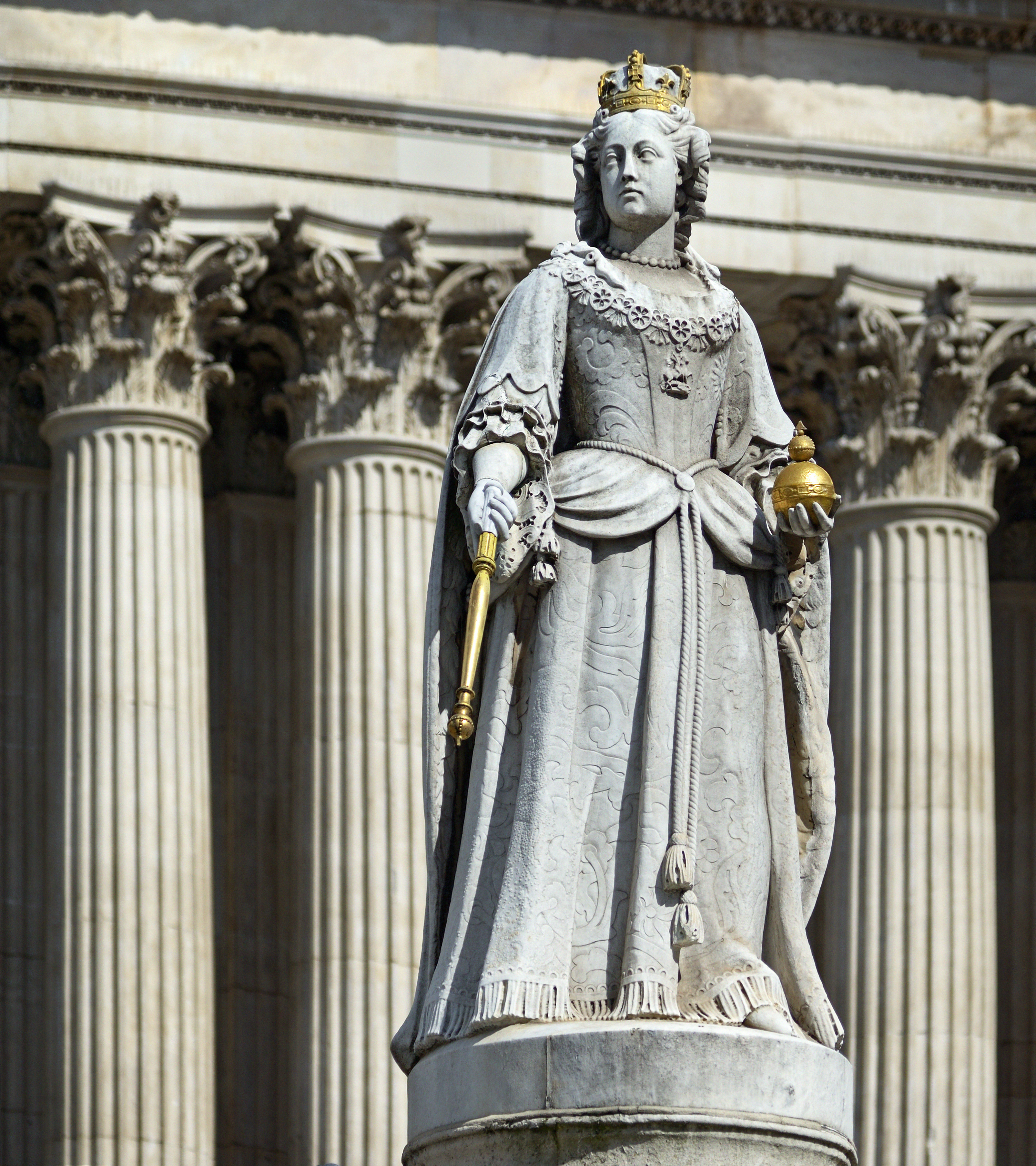 Anne of Great Britain statue near St Paul's. London